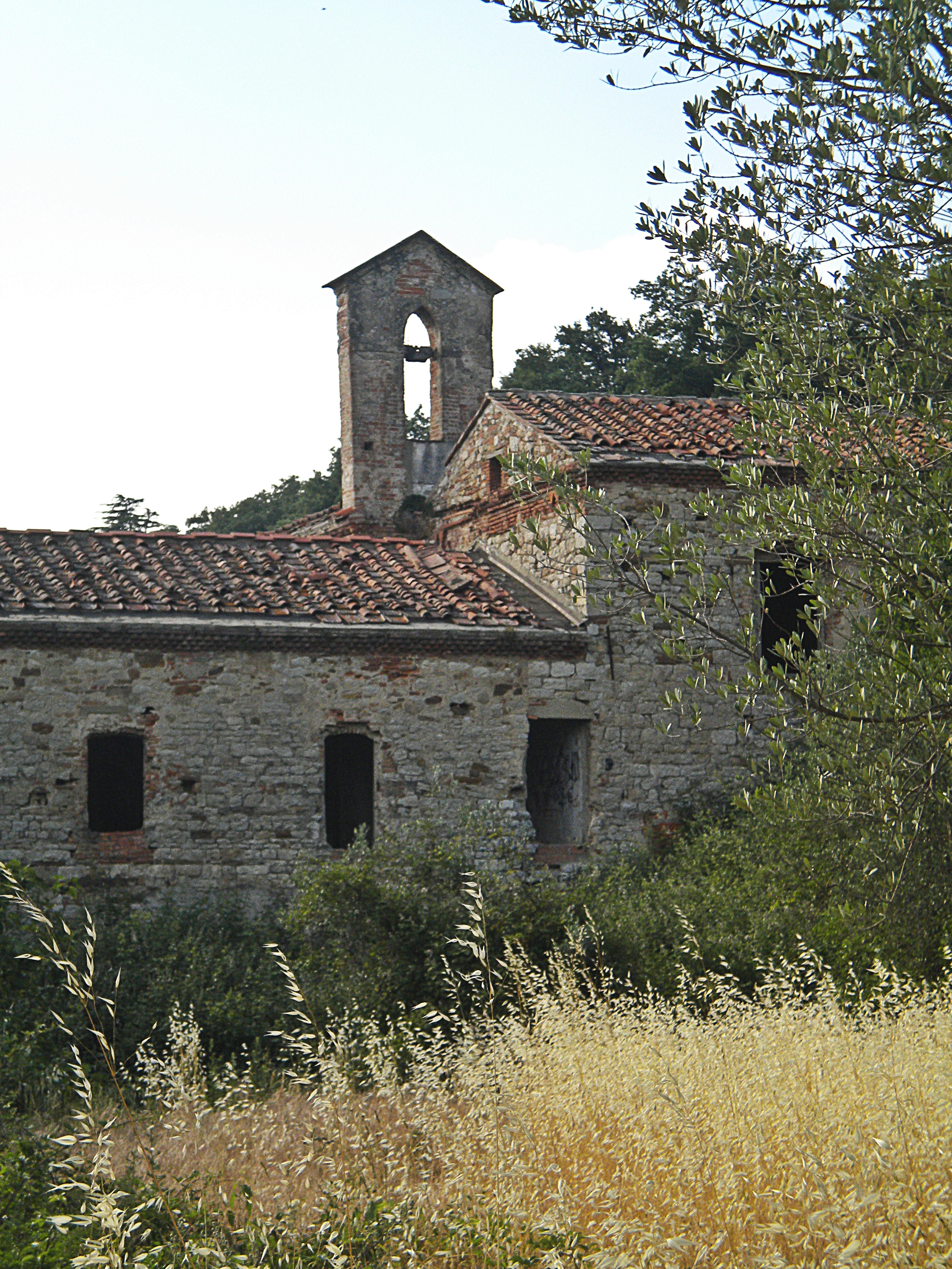 Villa Le Sacca